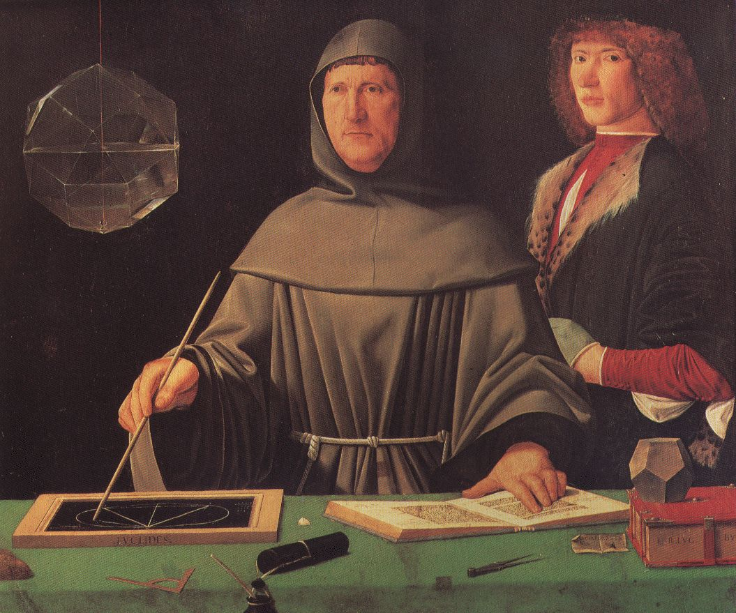 It shows Pacioli standing behind a table and wearing the habit of a member of the Franciscan order. He draws a construction on a board, the edge of which bears the name Euclides. His left hand rests upon a page of an open book. This book may be his Summa de Arithmetica, Geometria, Proportioni et Proportionalità or a copy of Euclid. Upon the table rest the instruments of a mathematician: a sponge, a protractor, a pen, a case, a piece of chalk, and compasses. In the right corner of the table there is a dodecahedron resting upon a book bearing Pacioli's initials. An rhombicuboctahedron (a convex solid consisting of 18 squares and 8 triangles) suspends at the left of the painting. The identity of the young man at the right is uncertain, but one commentator recognizes the “eternal student" instructed by Pacioli. Some authors have also mentioned the possibility that the student is Durer.